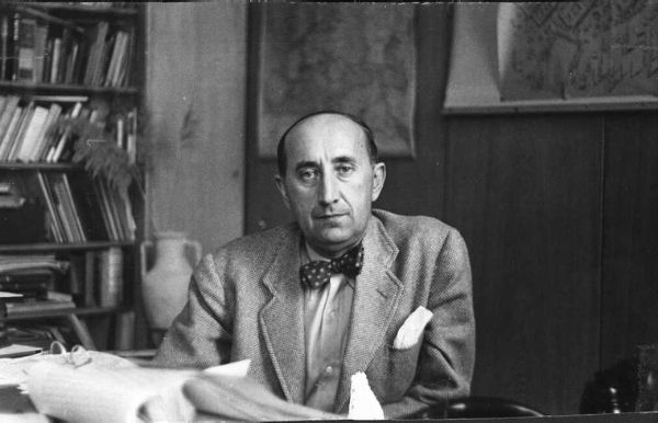 Dr. Chaim Yassky at his desk